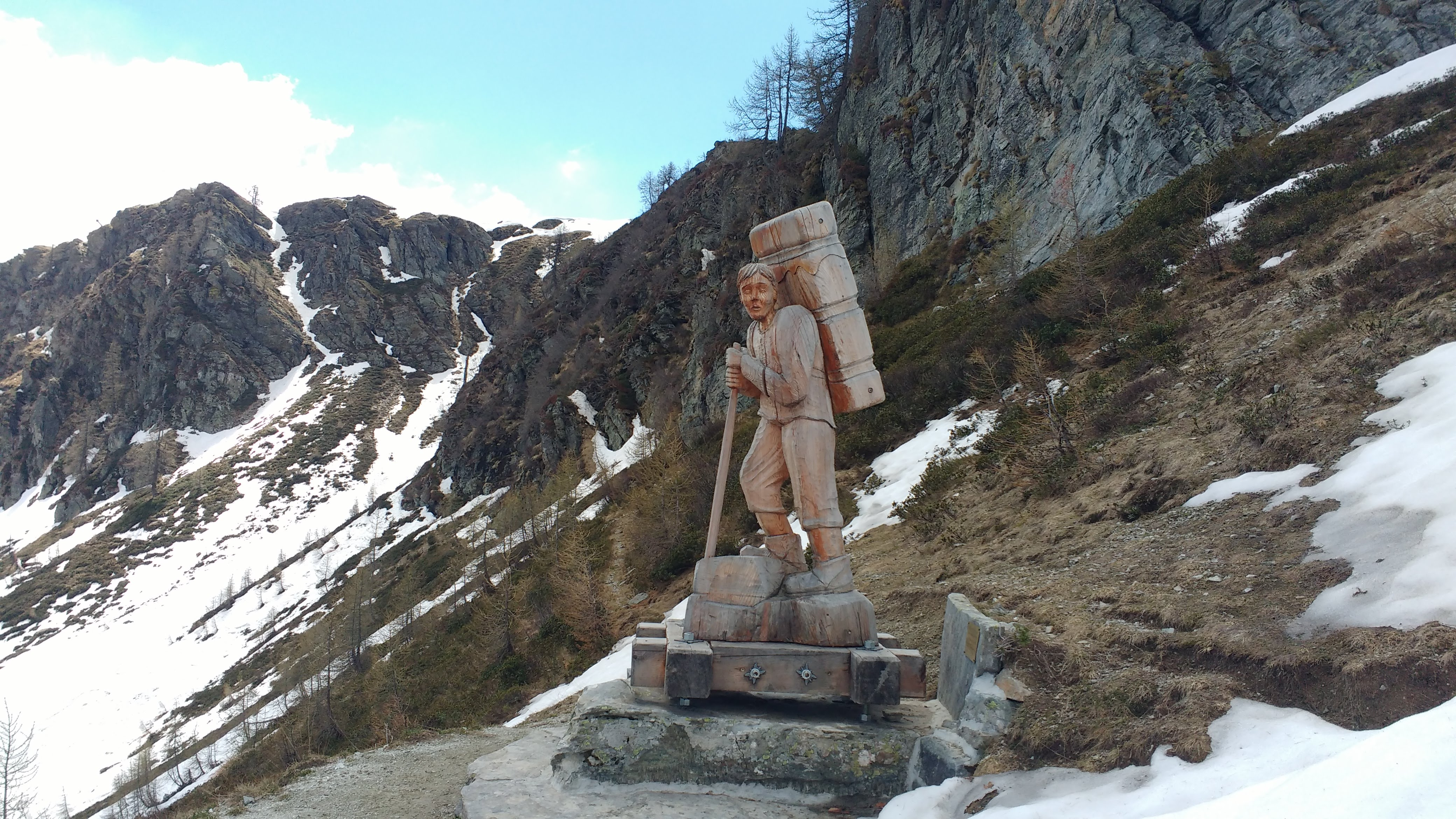 Wood sculpture of a "Spallone" that means border smuggler, this smuggler were often poor people living in the alps near the Swiss border. The picture is taken at the location "Bocchetta di Muino", in Val Vigezzo, Piedmont, Italy.